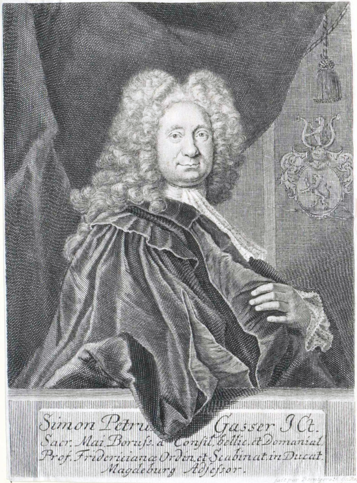 Depicted person: Simon Peter Gasser – German economist